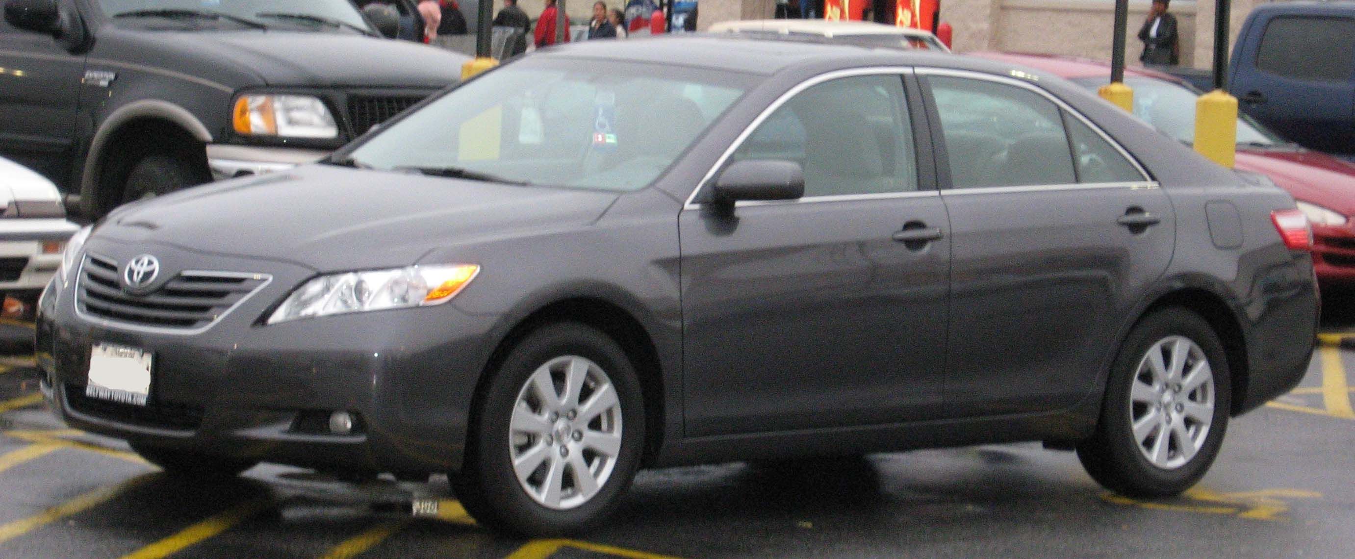 2007 Toyota Camry XLE photographed in USA.